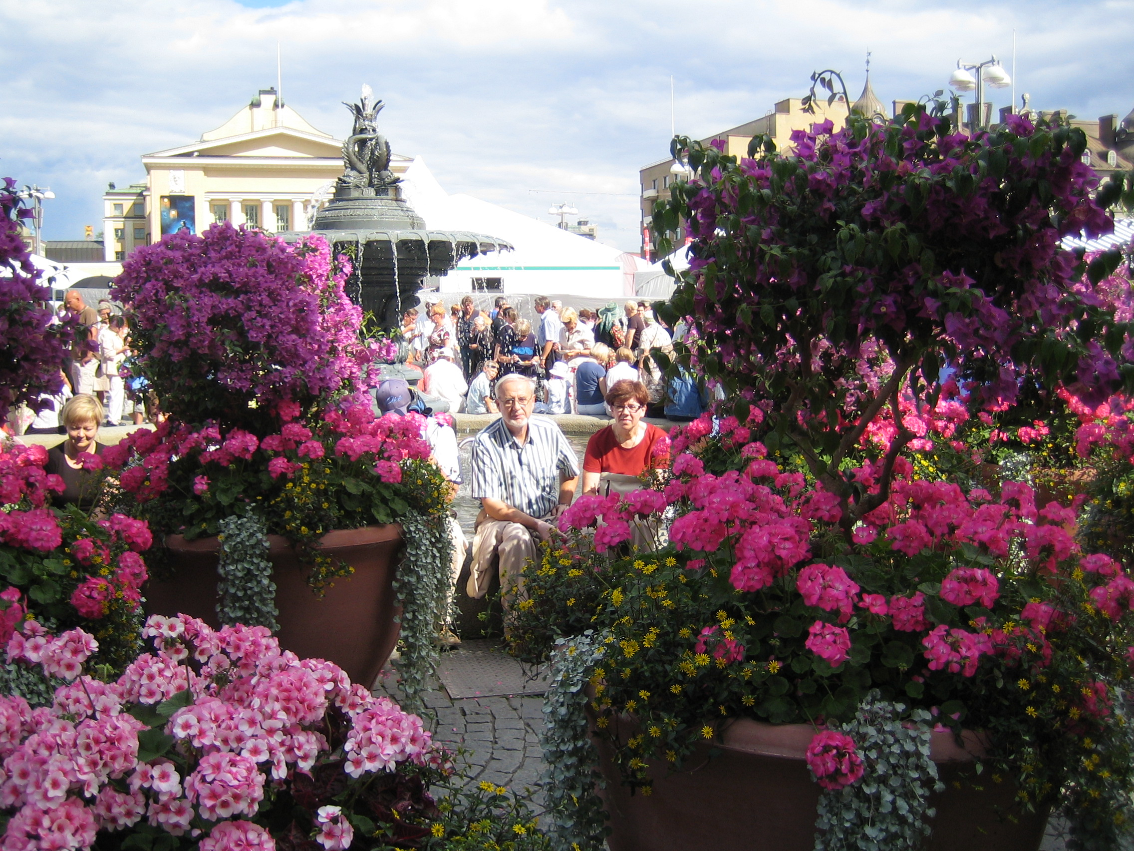 View of the Tampere Central Square during the Floral Festival